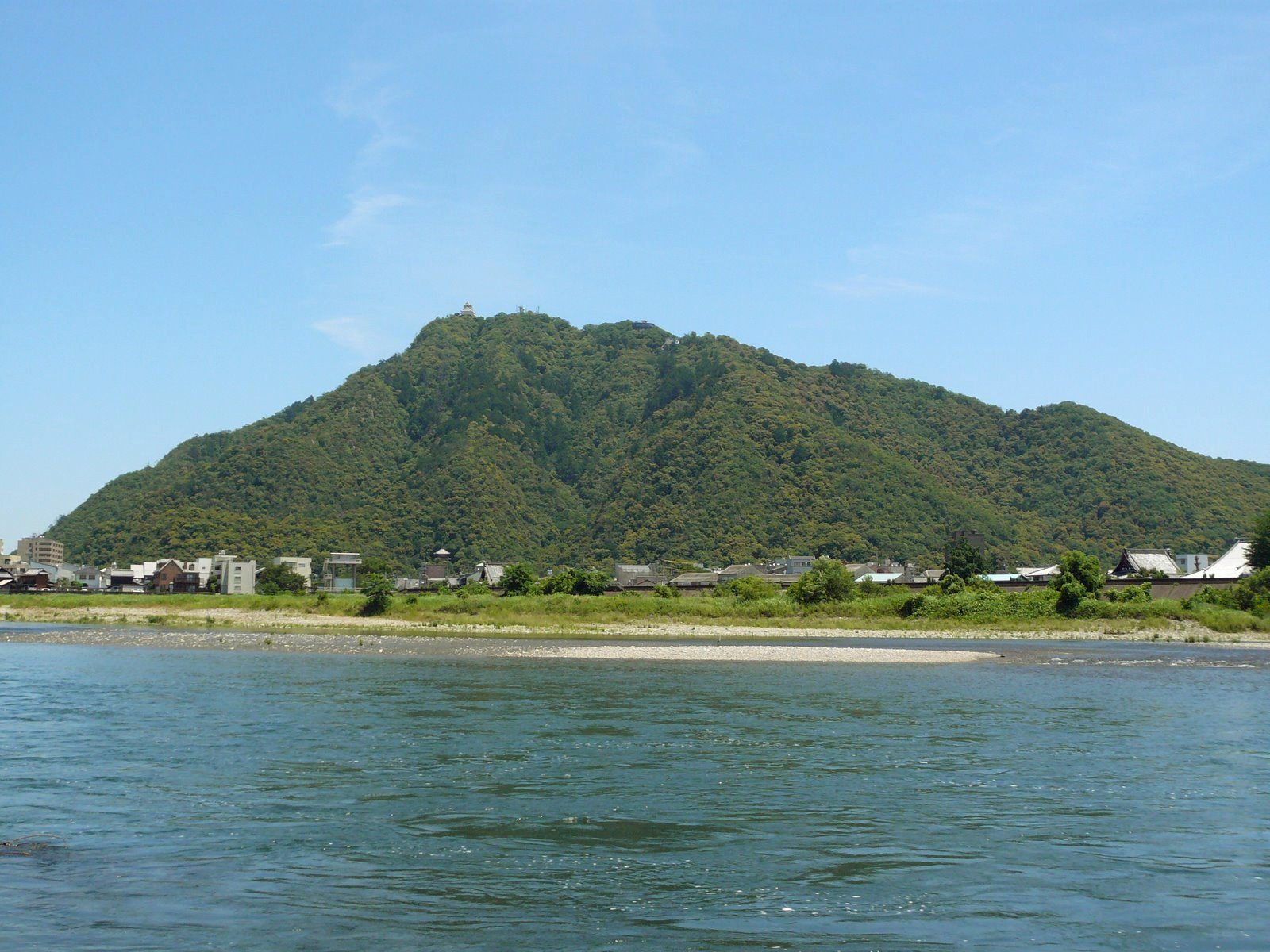 This a picture of Mt. Kinka (Gifu City, Japan) that I took in March 2006.